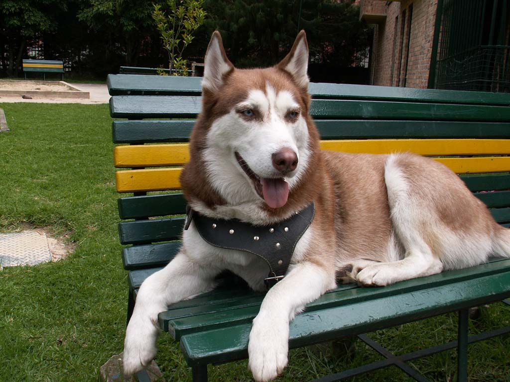 Five year old female Siberian Husky named Luna.